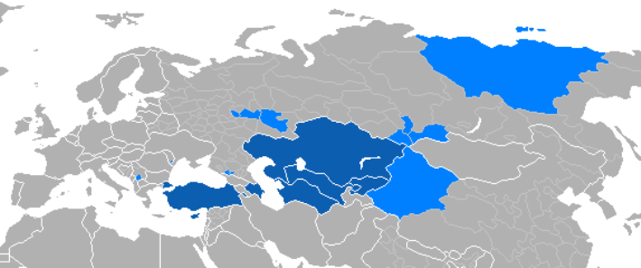 Map showing countries and autonomous regions with an official Turkic language.